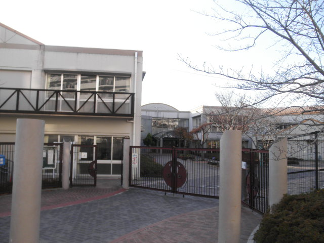 Tsukigaoka elementary school